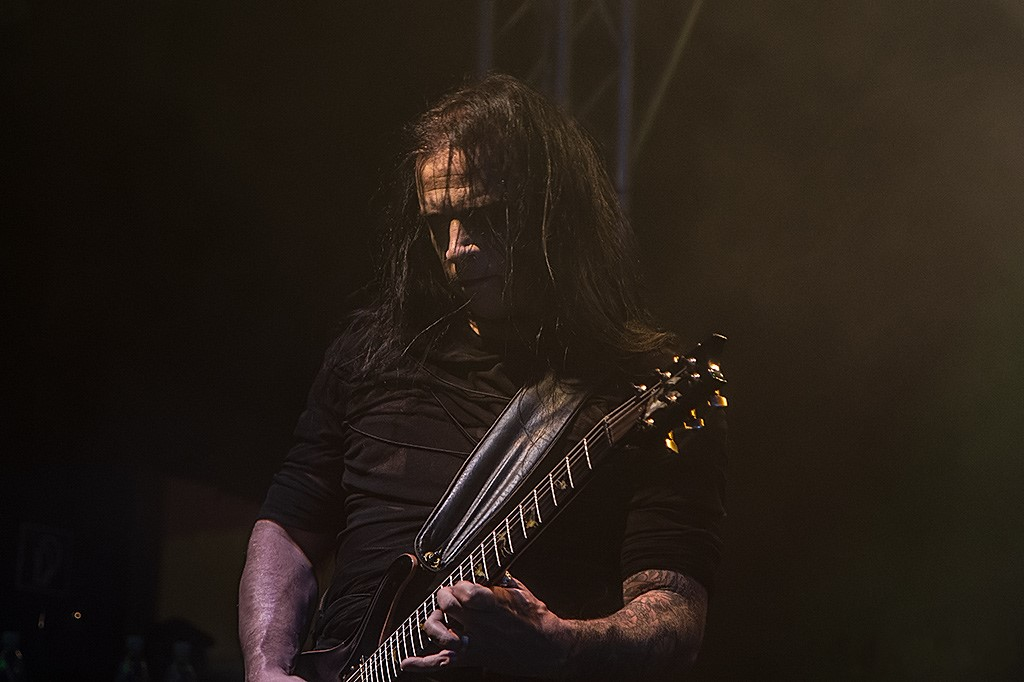 Cradle of Filth - 7.12.2012 - Music Hall, Geiselwind